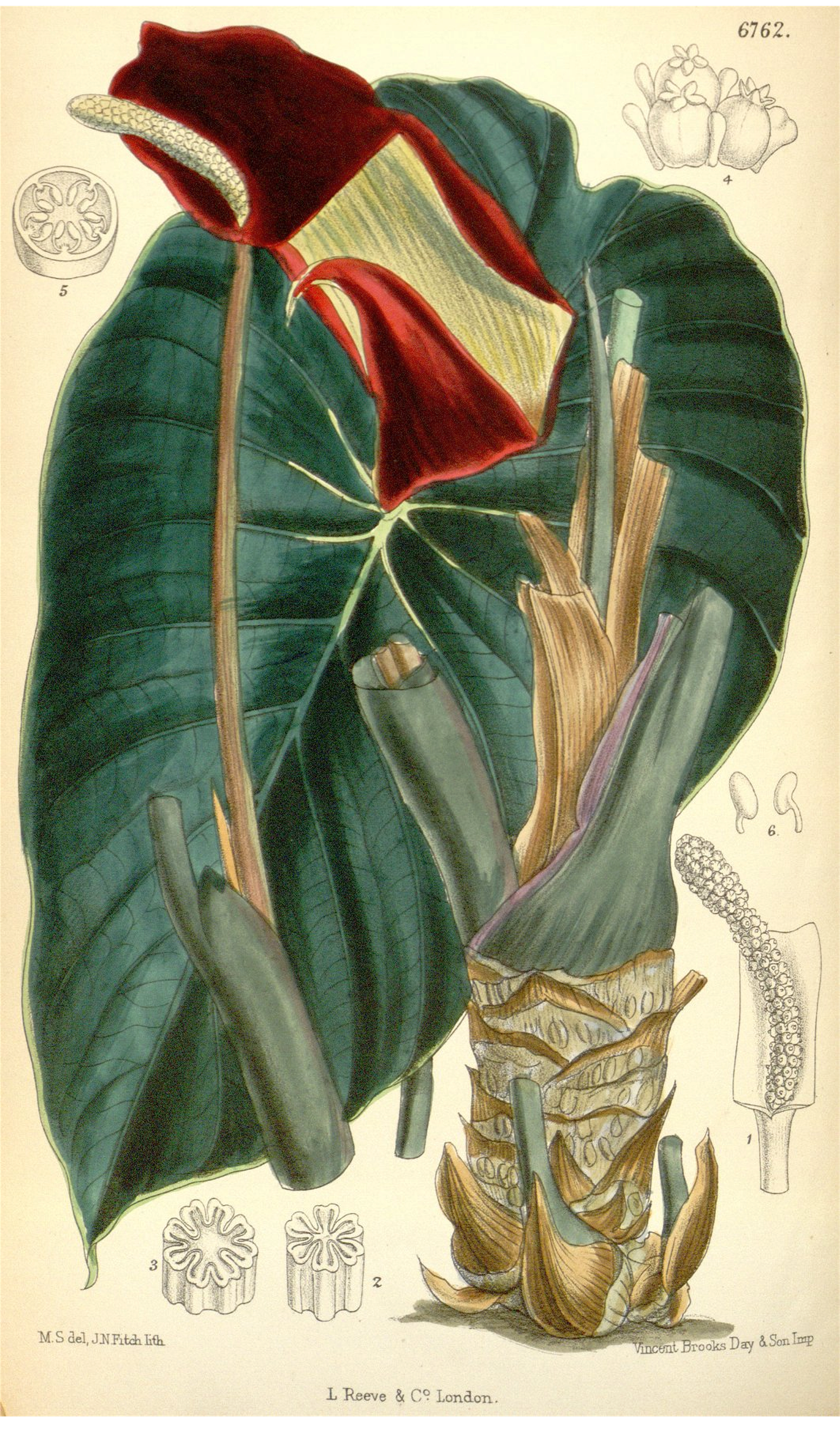 Steudnera colocasiifolia in Curtis's Botanical Magazine